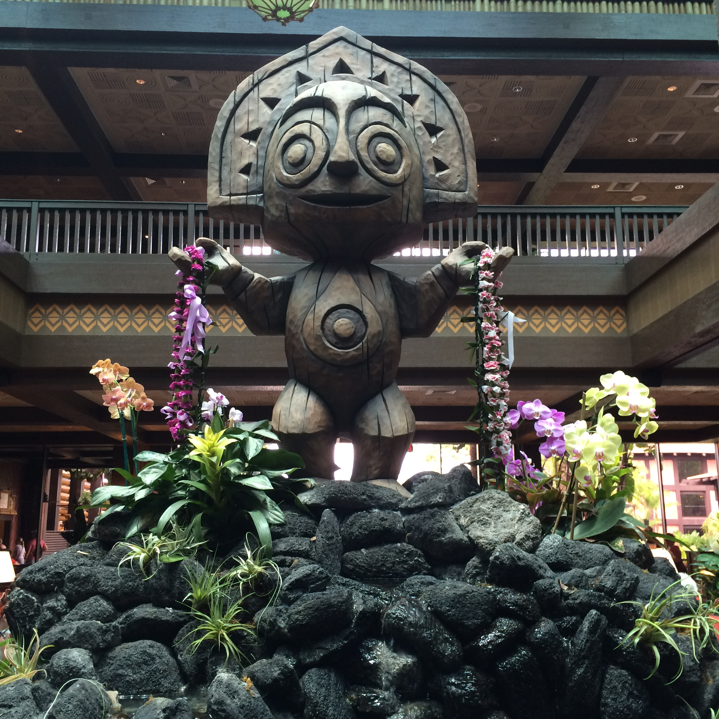 Maui-inspired figure at Disney's Polynesian Village Resort at Walt Disney World Resort.